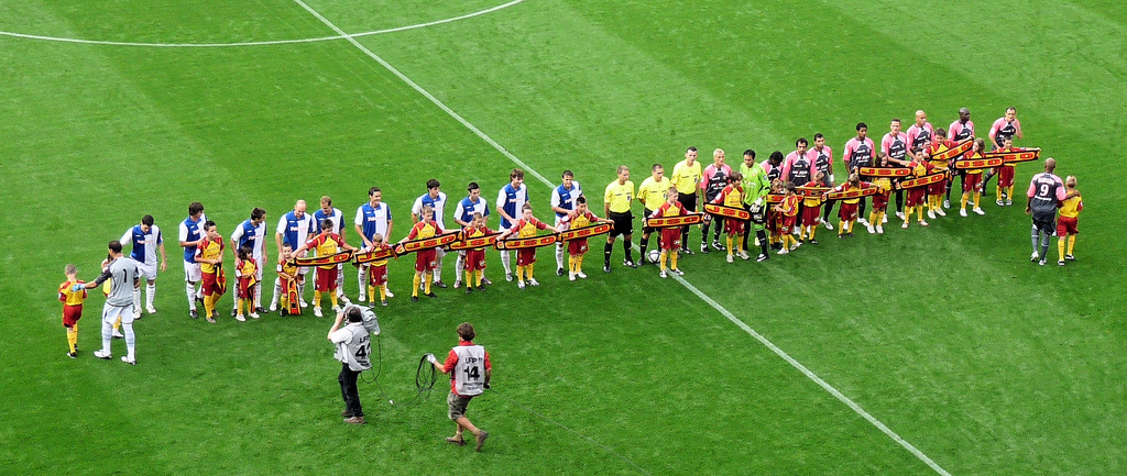 Presentation of the teams during the friendly match Lens-Bilbao, July 31, 2010.